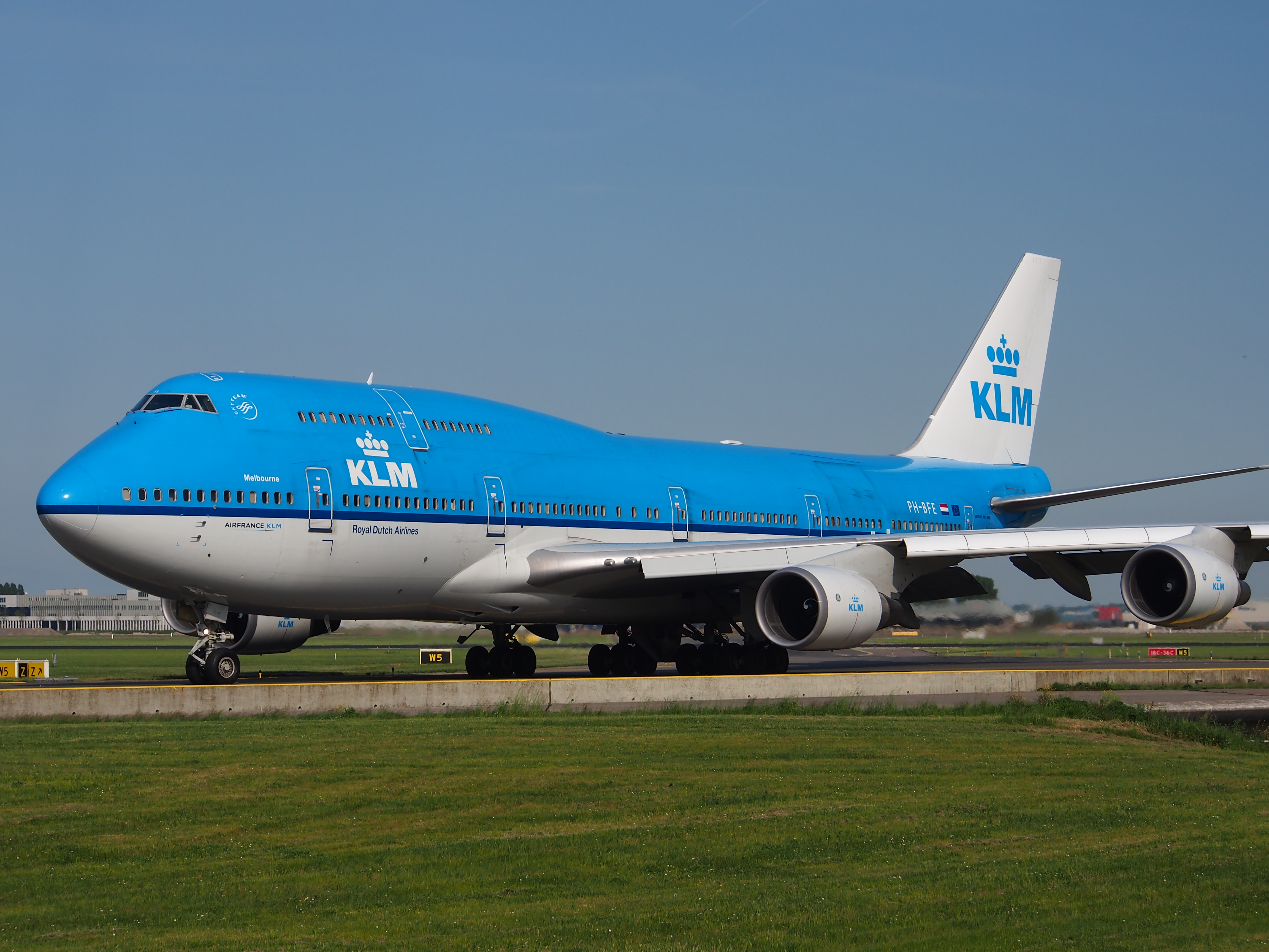 Photographed at Schiphol (AMS - EHAM), The Netherlands.